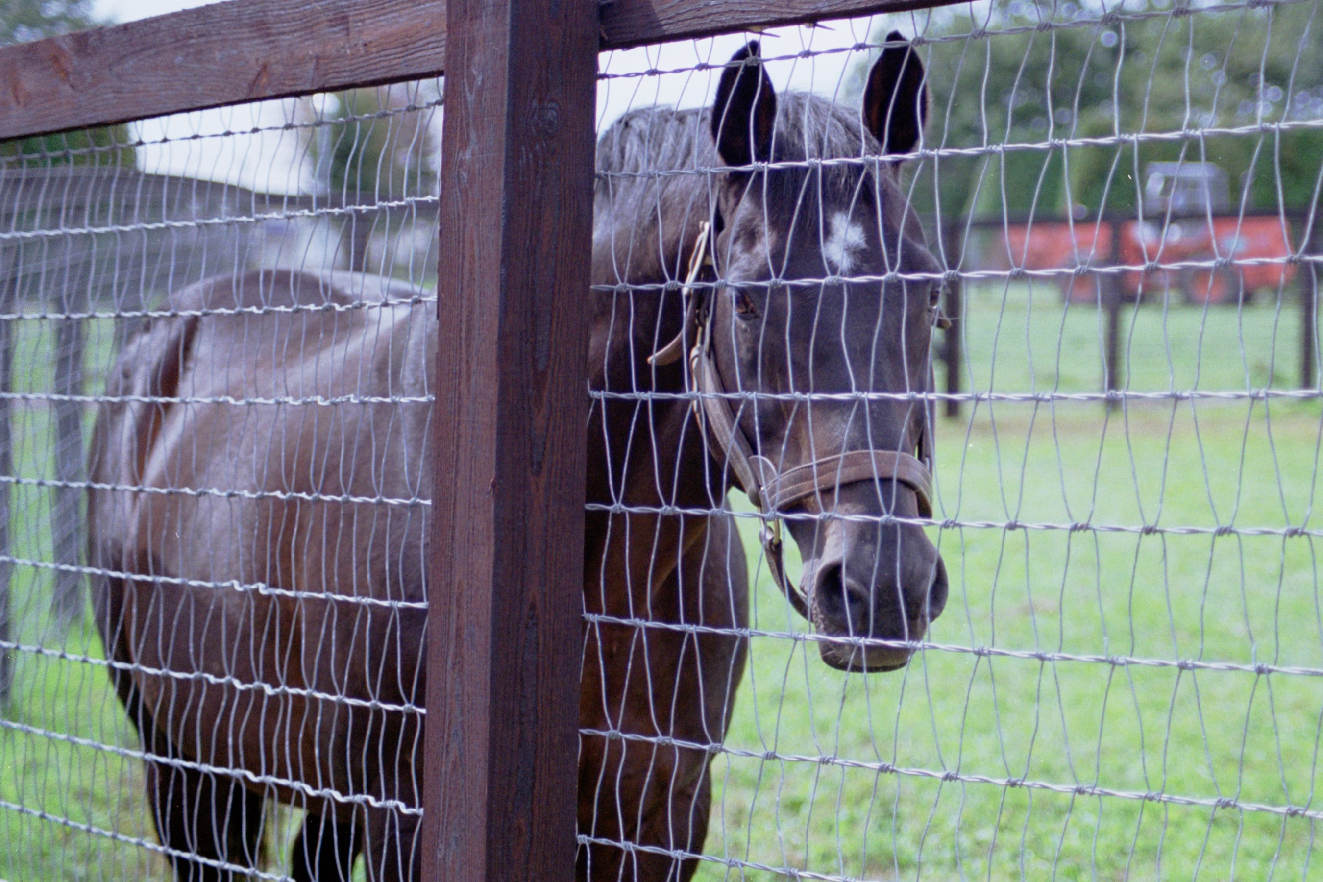 Real Shadai at Shadai Stallion Station,Hayakita(Abira) Hokkaido Japan at the age of 21 (born in 1979)